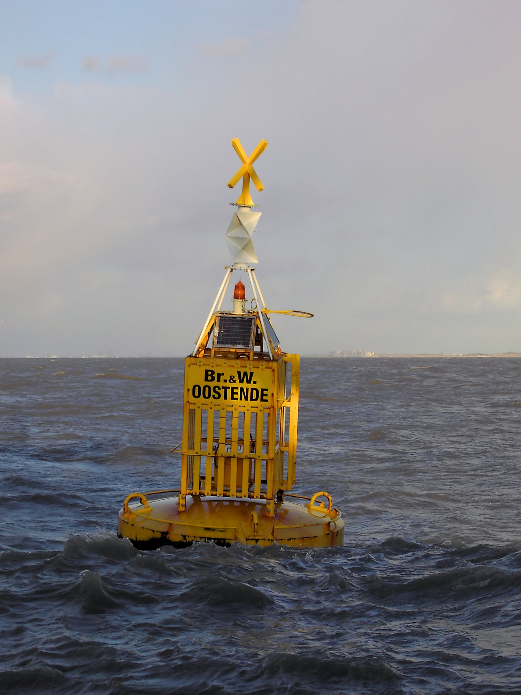 Special mark buoy indicating the position of Oostende dredge dump site. Br.& W. stands for Bruggen en Wegen, which means 'Bridges and Roads'. North Sea, Belgium.